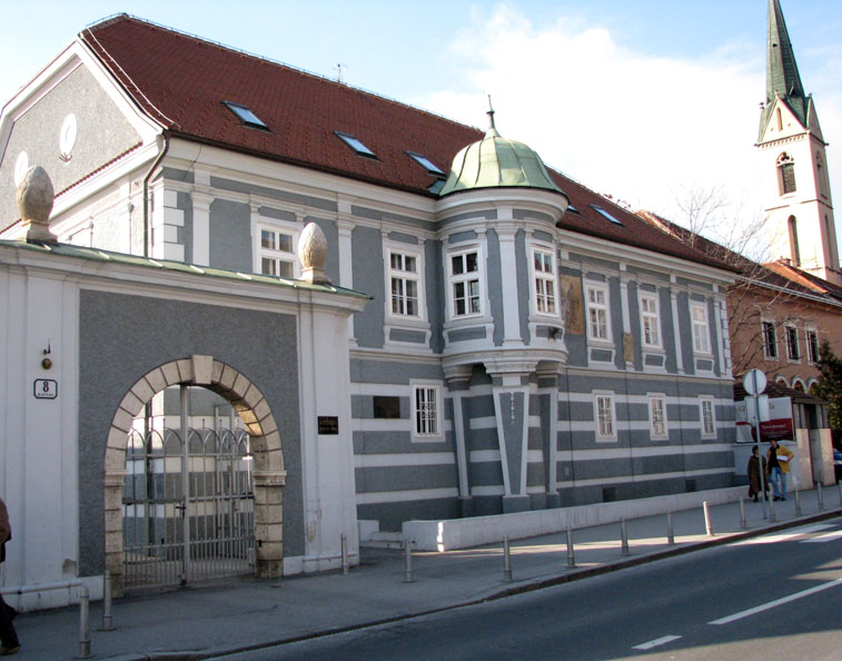 Kaptol 8, Zagreb.